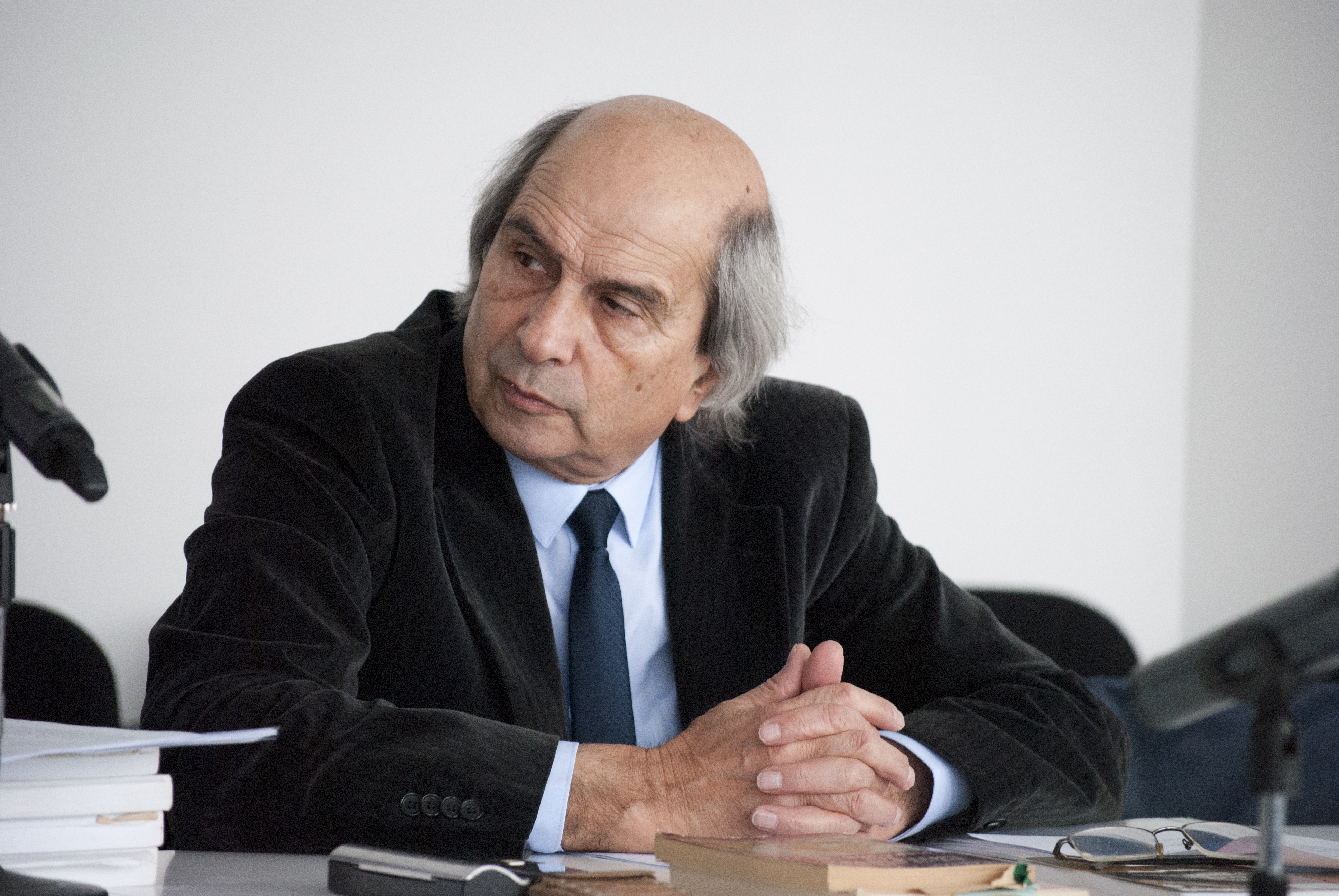 Prof. Mihail Nedelchev at the VI Atanas Slavov's Readings in the New Bulgarian University, January 18, 2016